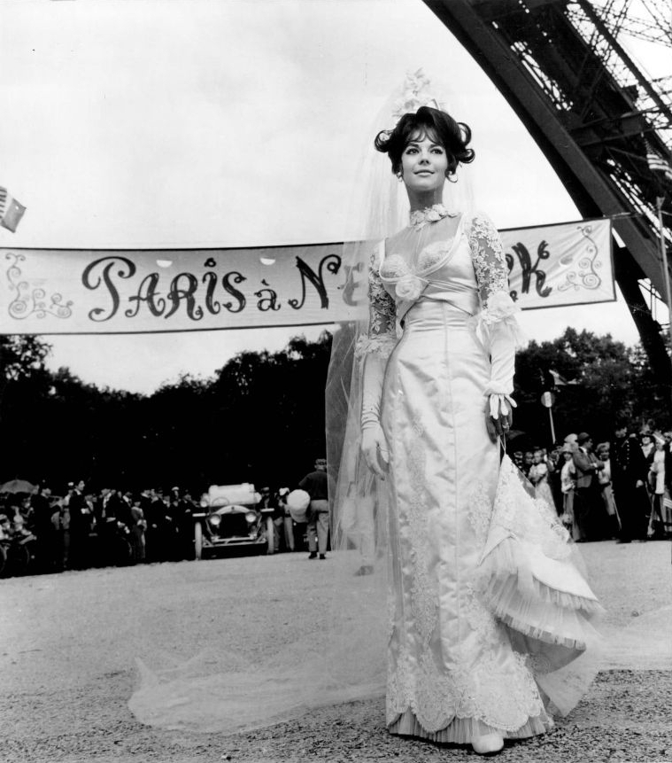 Press photo of Natalie Wood on the Paris set in Blake Edwards' The Great Race.